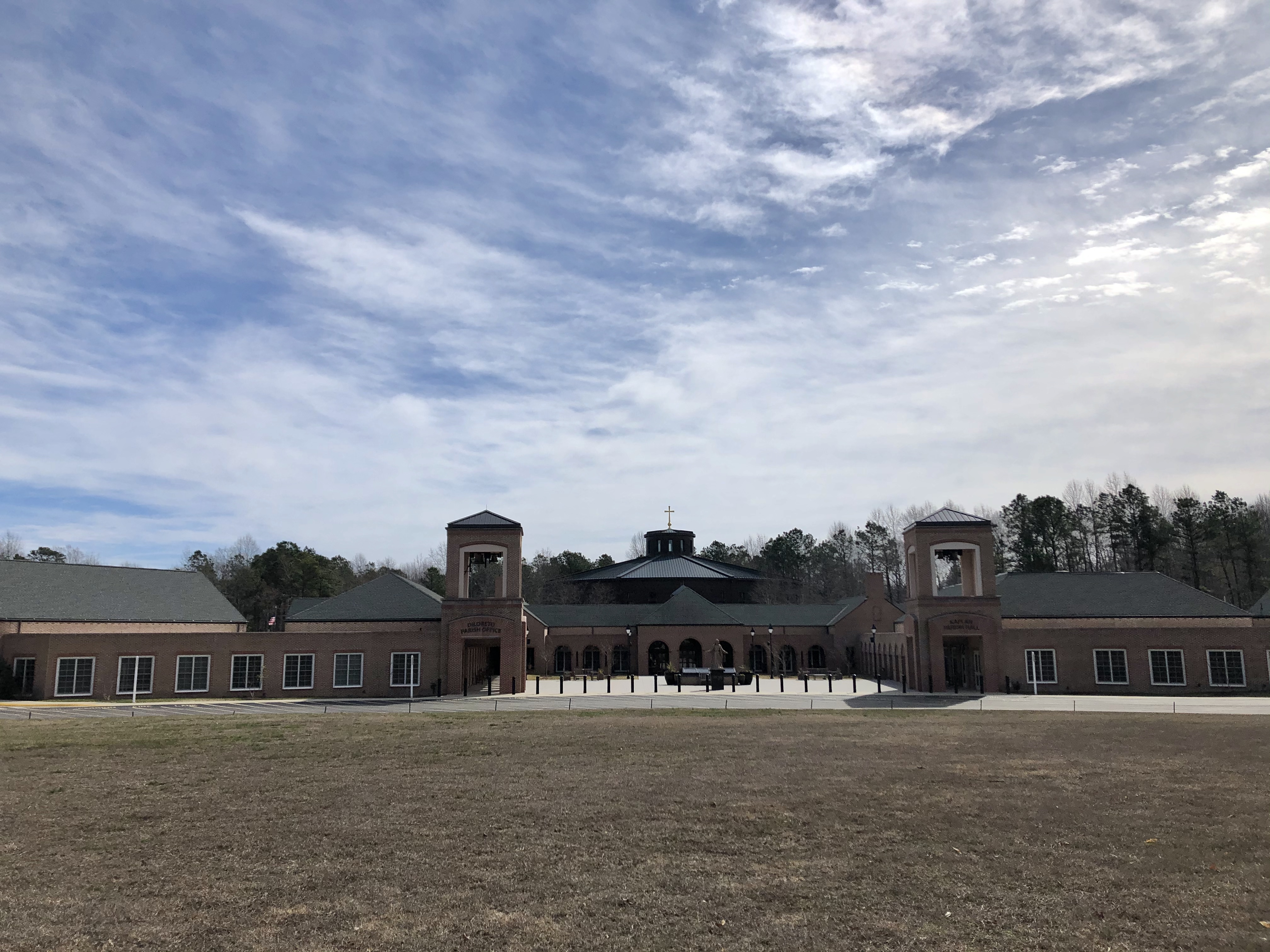 The new church of Saint Bede Catholic Church parish in Williamsburg, Virginia on 4 March 2020.